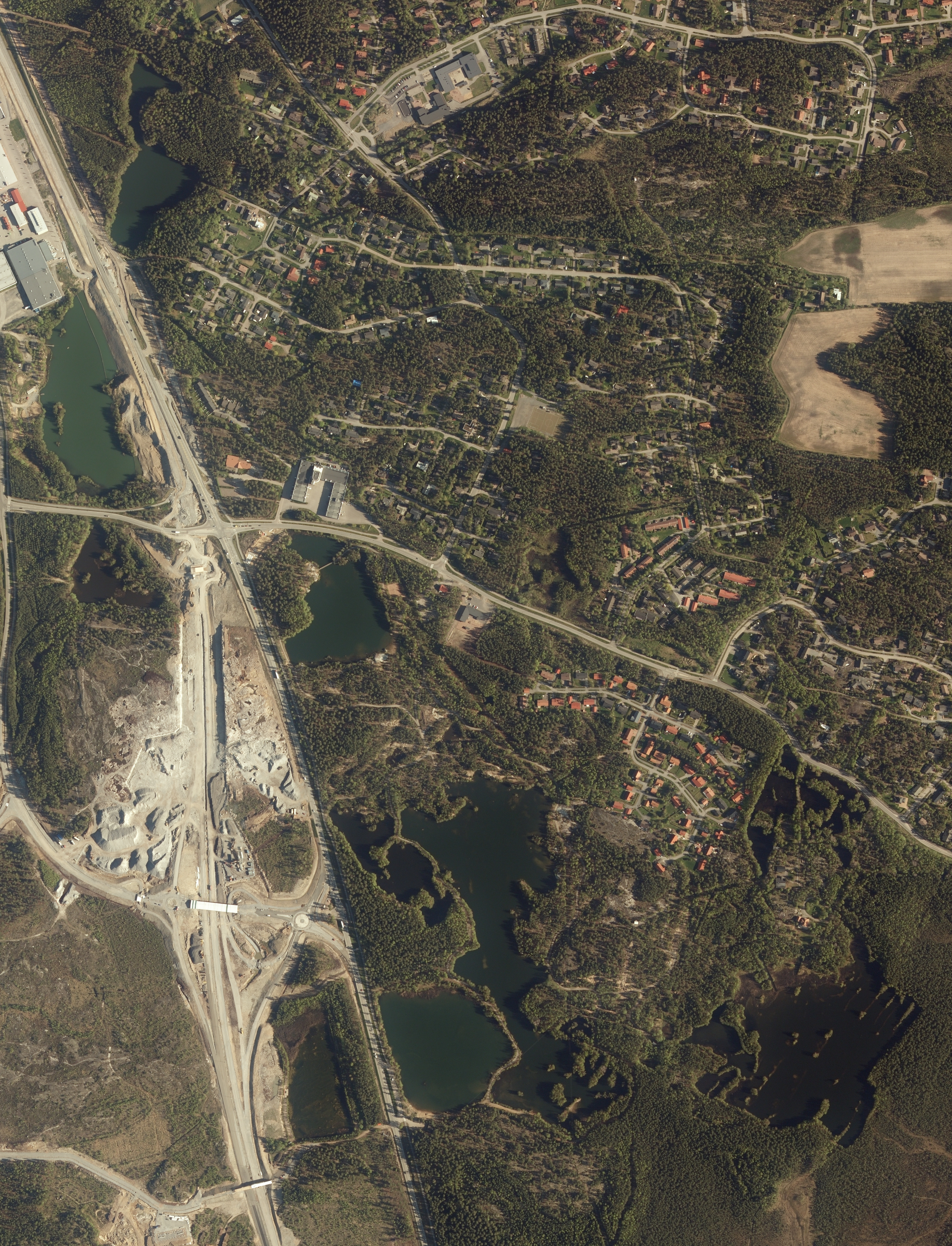 Ortho image of Riviera of Masku in Finland. Image is cropped from larger National Land Survey of Finland's ortho image. Image source is Ortoilmakuva / väriorto / karttalehtitunnus: L3411H with last update 2015.